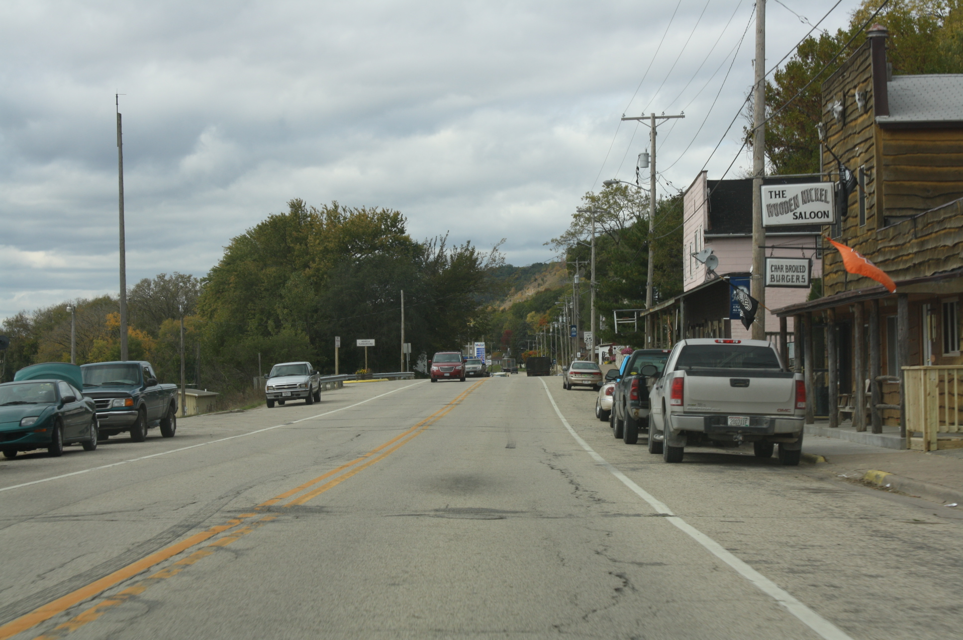 Looking north at Ferryville, Wisconsin on Wisconsin Highway 35.